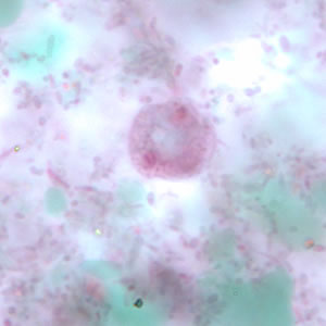 Binucleate form of a trophozoite of D. fragilis, stained with trichrome.